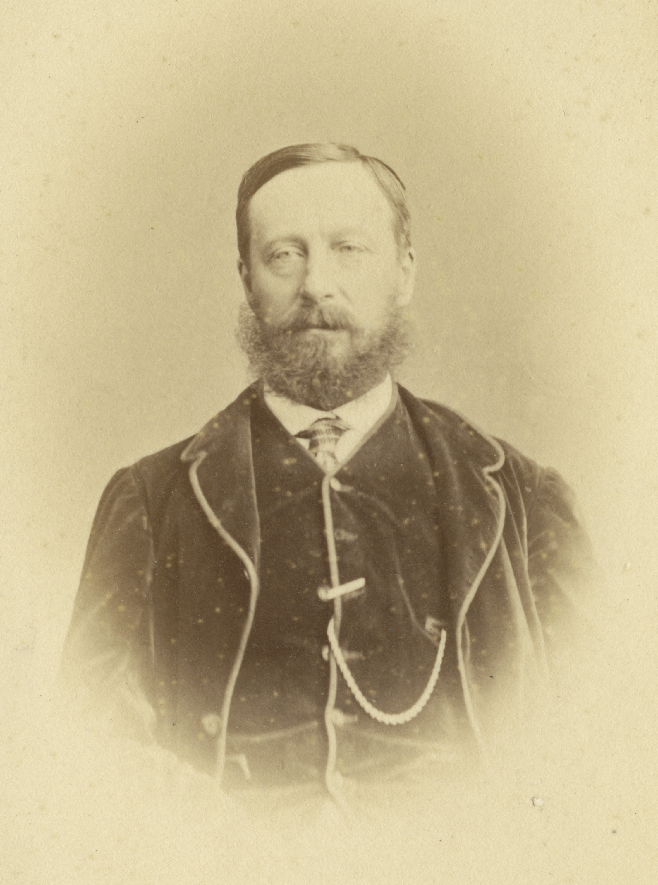 Portrait of Arthur Collins, MHR.